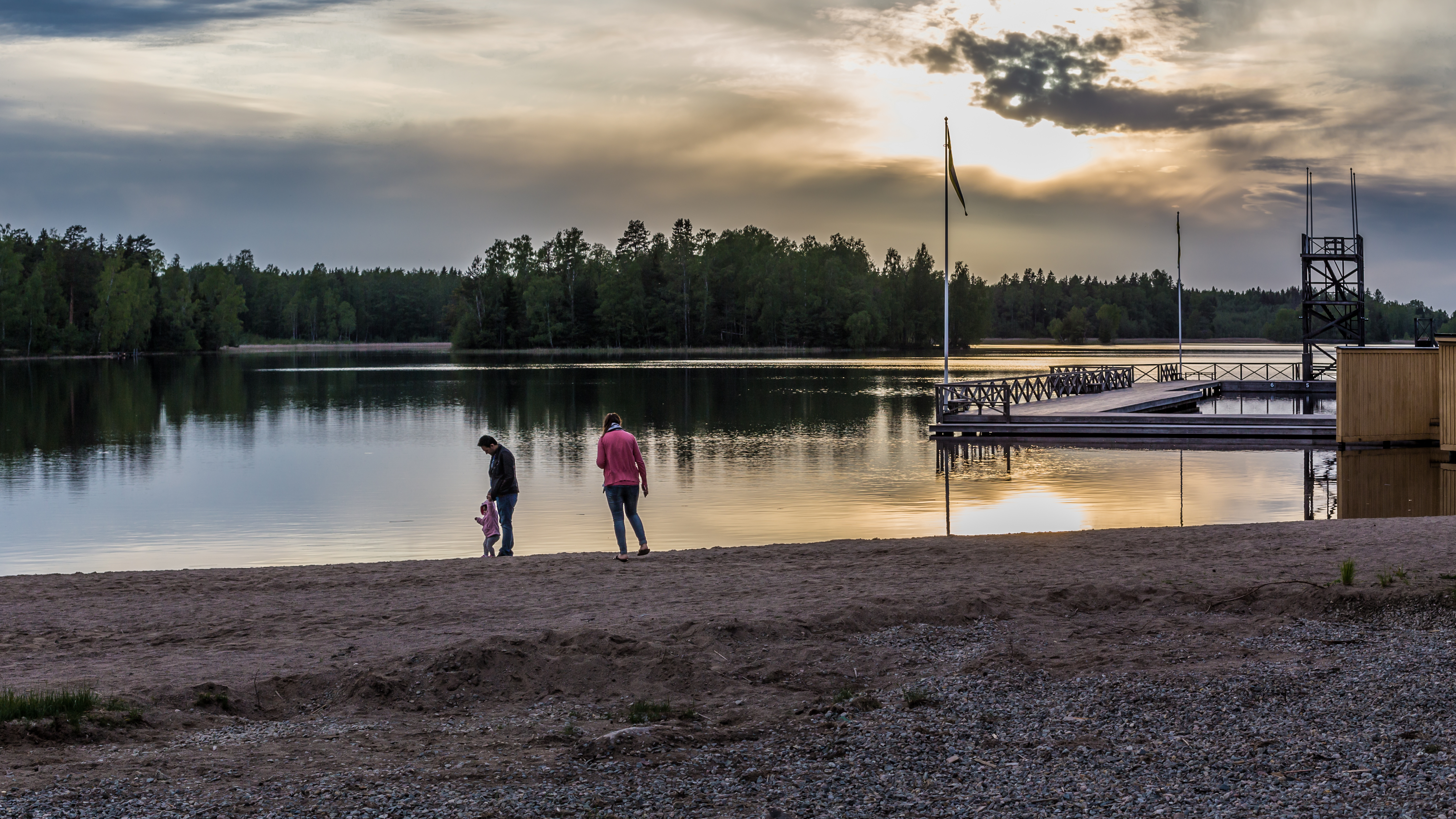 Lake Långforsen, Sala Municipality, Västmanland County, Sweden.